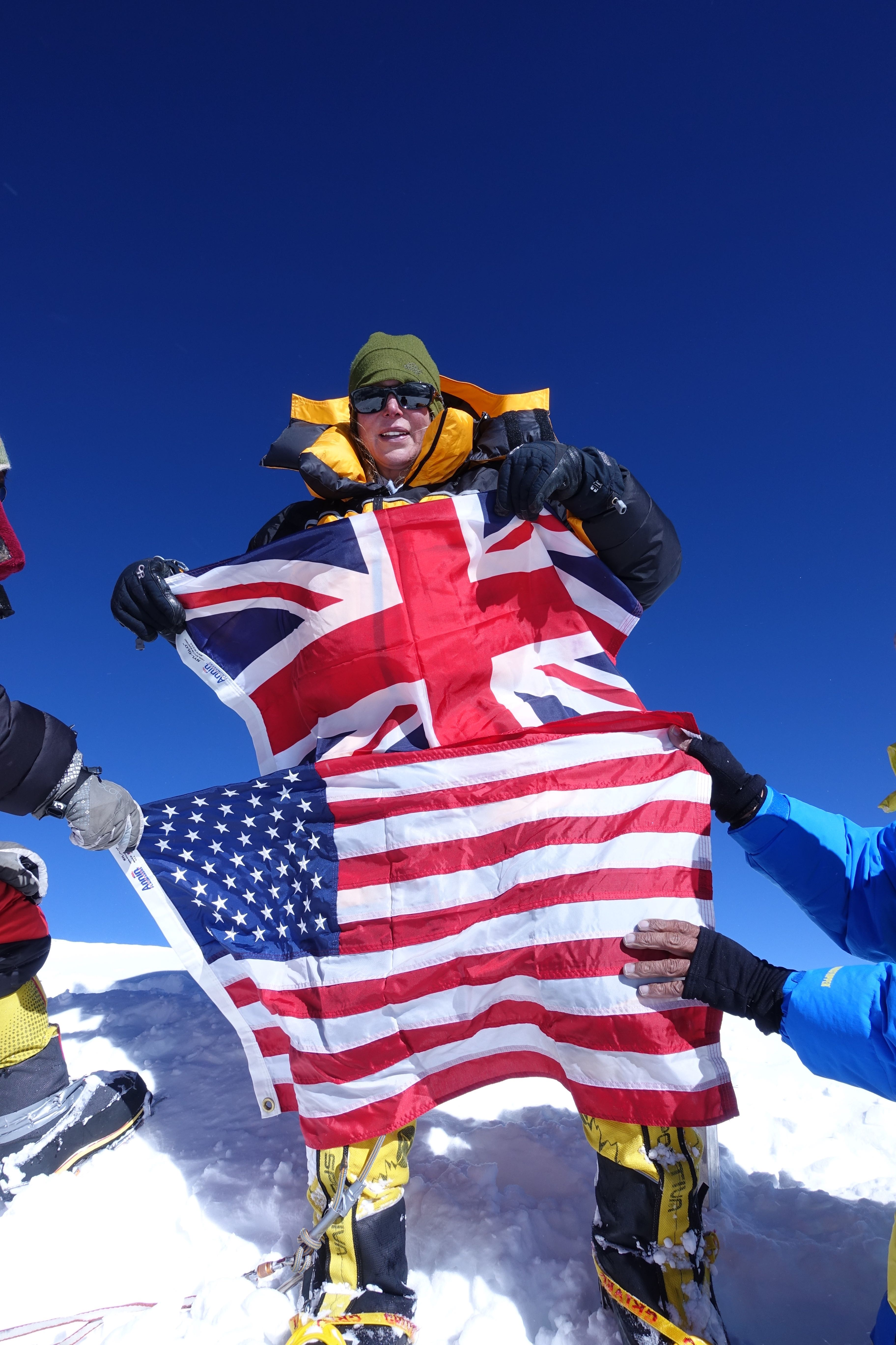 Photo taken by Vanessa O’Brien on top of K2, Northern Pakistan, 8,611m, on July 28, 2017 4:40 pm. The photo was taken with a DSLR camera using a timer while balancing on backpack on summit coordinates 35 degree 52′ 57” N 76 degree 30′ 48” E. The photo depicts the moment Vanessa became the first American and British woman to summit K2, the second highest mountain in the world, displaying both the British Flag and the American Flag on the summit.